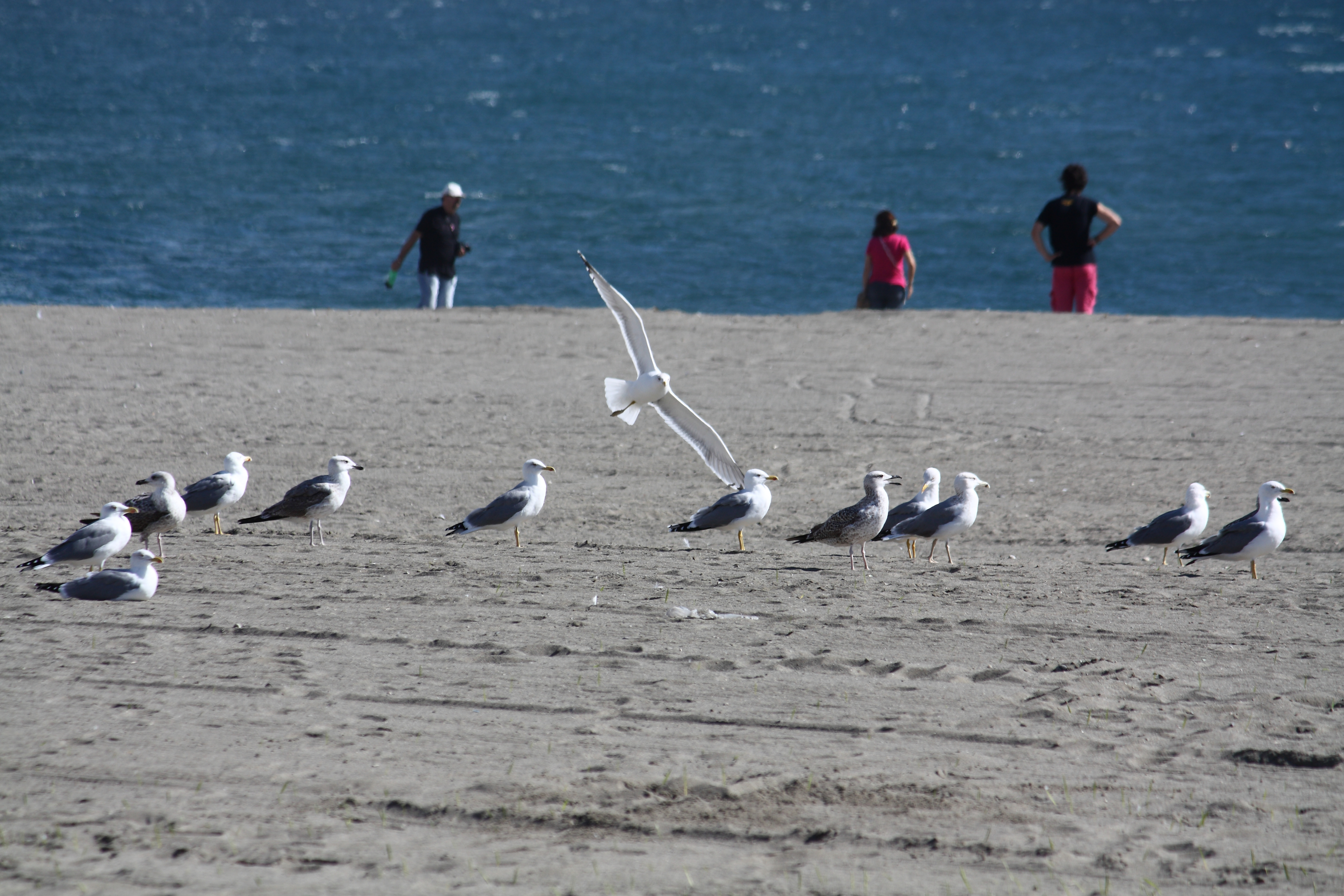 Seagulls in Estepona, Spain.